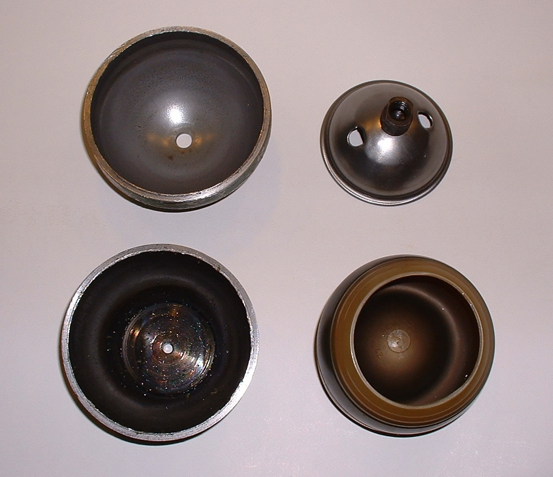 Air cell from the hydropneumatic suspension of a Citroën Xantia, dismantled. left: mantle, bottom right: diaphragma, top right: bracket inside the cell.